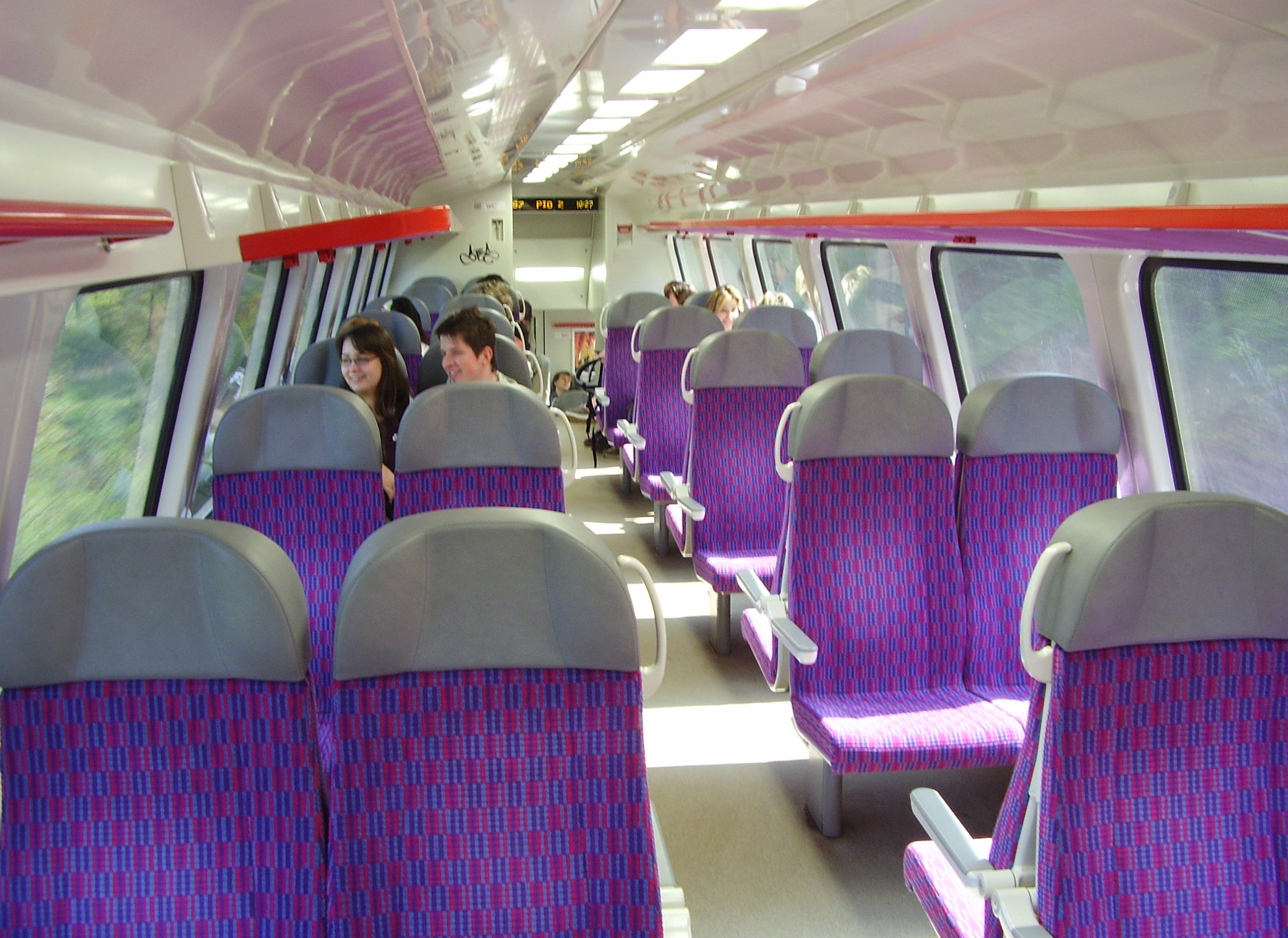 Interior of electric multiple unit 471